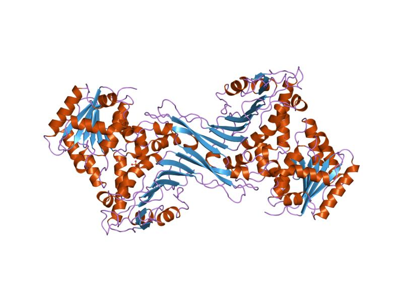 Cartoon representation of the molecular structure of protein registered with 1dpg code.